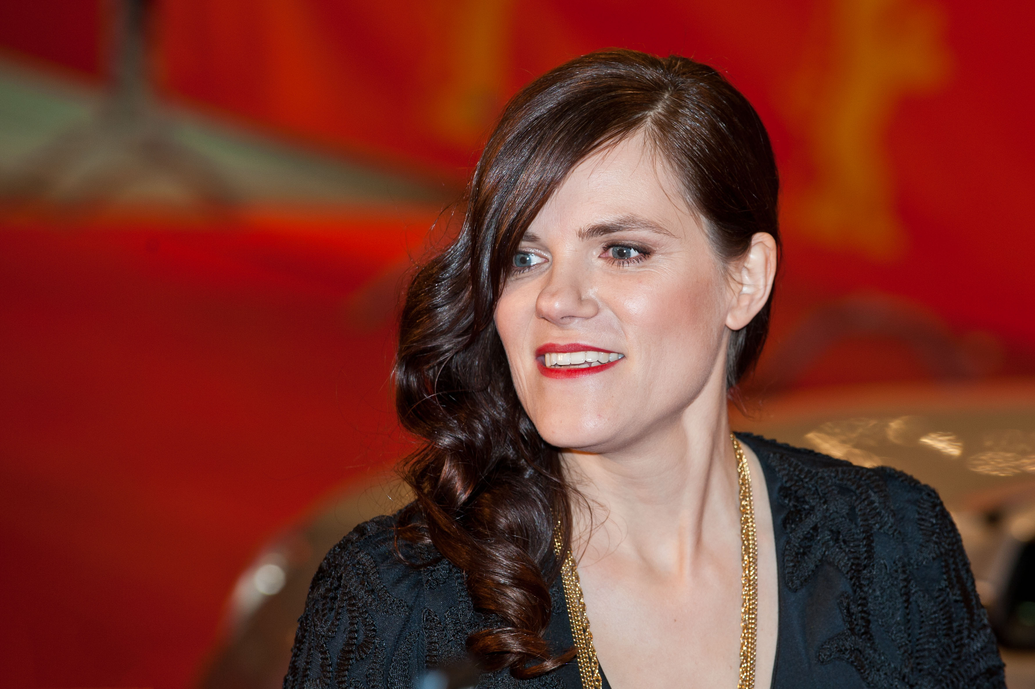 German Actress Fritzi Haberlandt at the Berlin Film Festival 2013